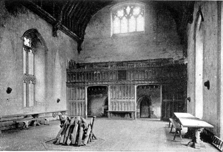 The 14th century great hall at Penshurst Place showing the screens passage, from Ancestral Homes of Noted Americans by Anne Hollingsworth Wharton (1915). It remains in the same state today. Many great halls have been lost and many have been modernised. Very few from before 1500 have survived into modern times with so few alterations.